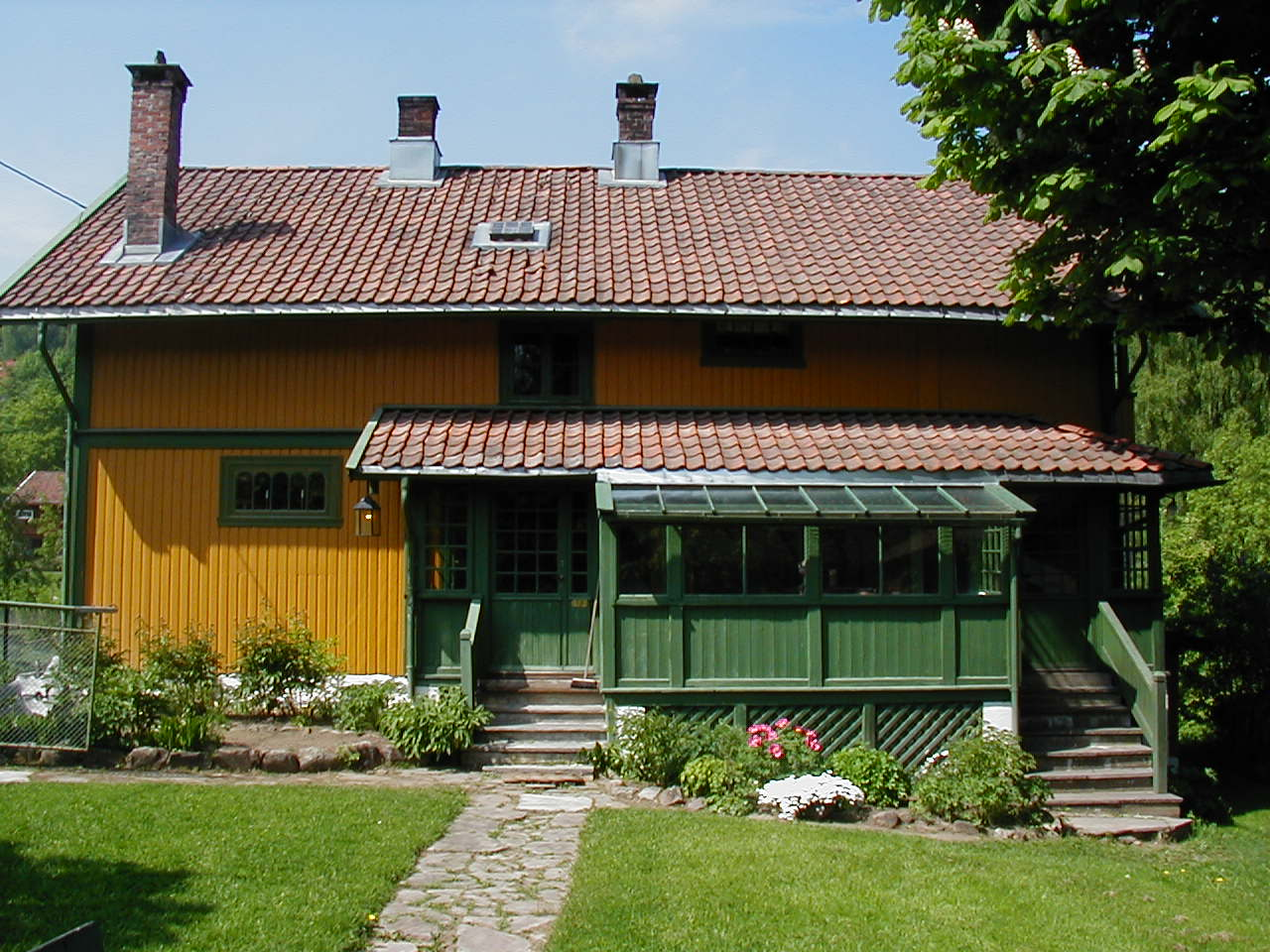 Labråten, the home of Hulda and Arne Garborg from 1897.